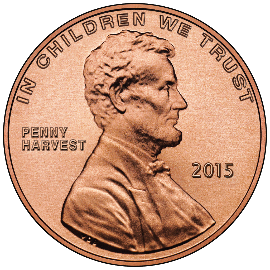 Copper Penny Harvest Logo